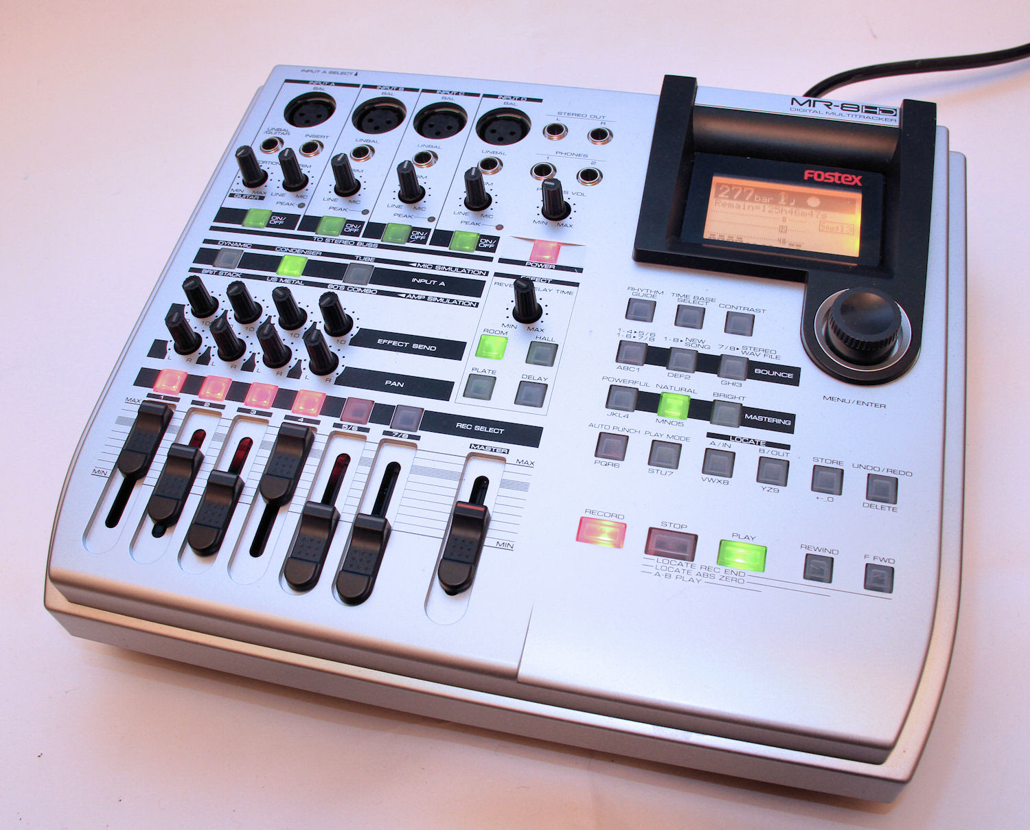 This is a Fostex MR8 HD multitrack recorder.